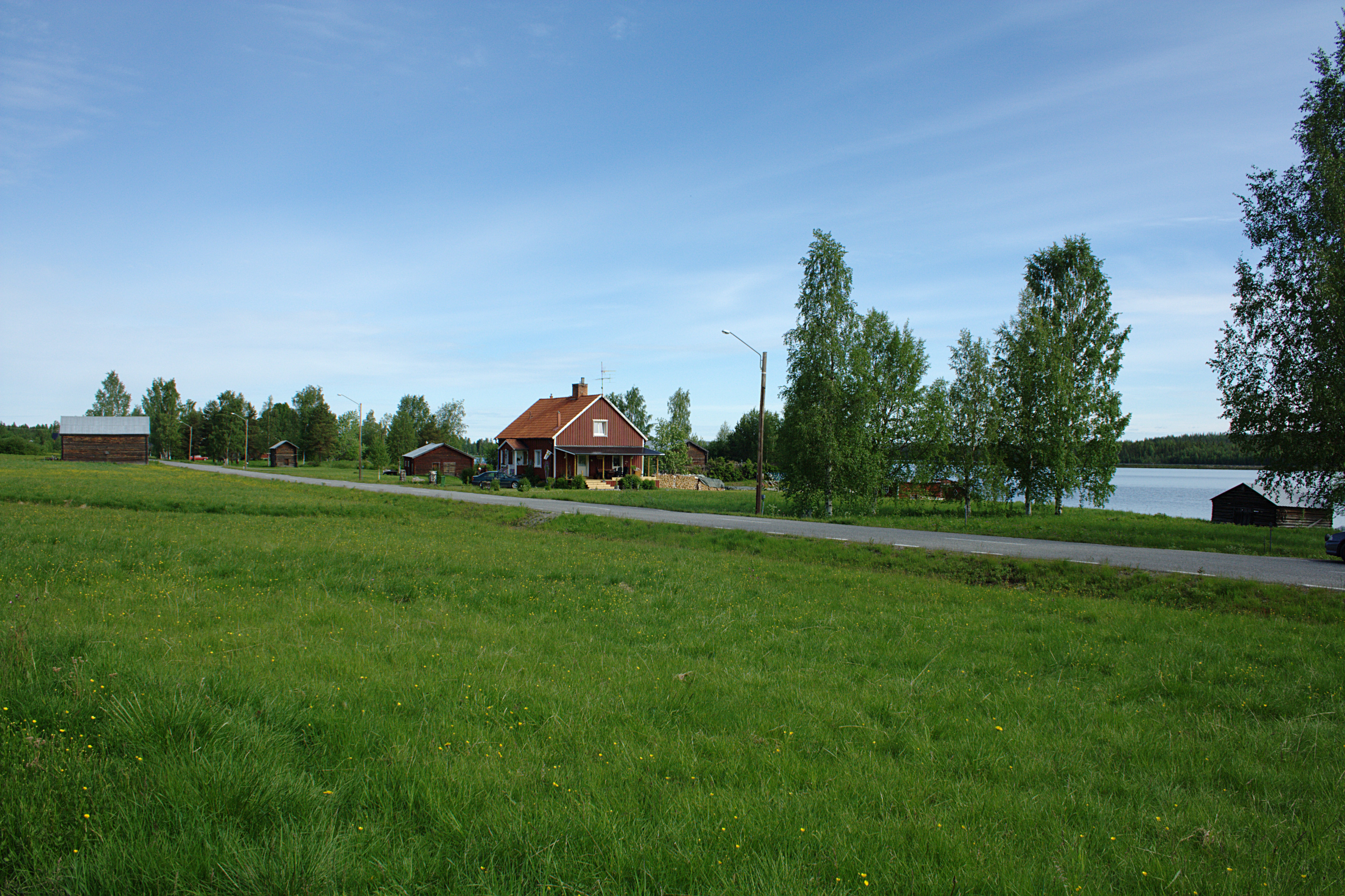 The village of Kattisavan